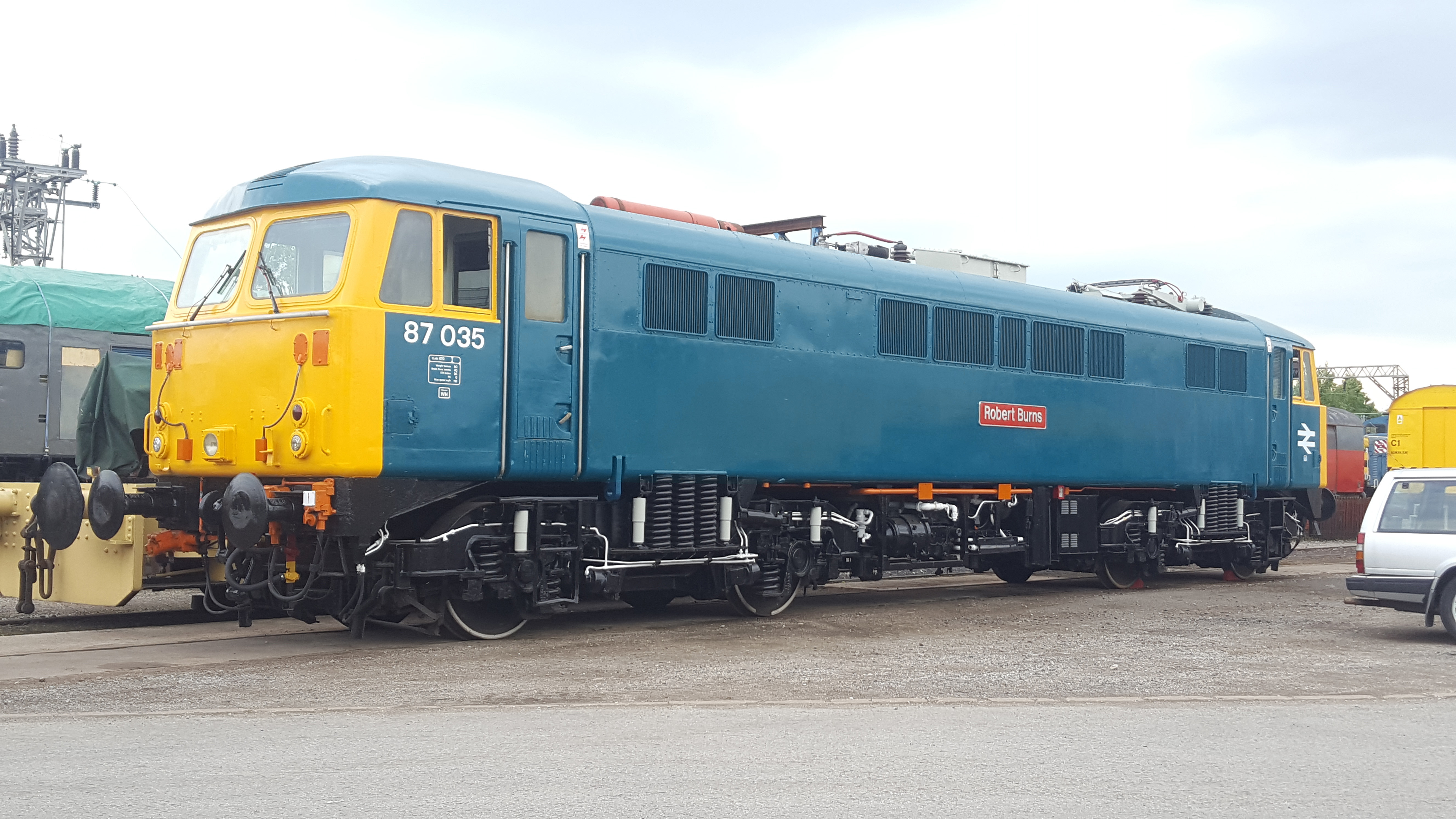 87035 at Crewe Heritage Centre in 2018.